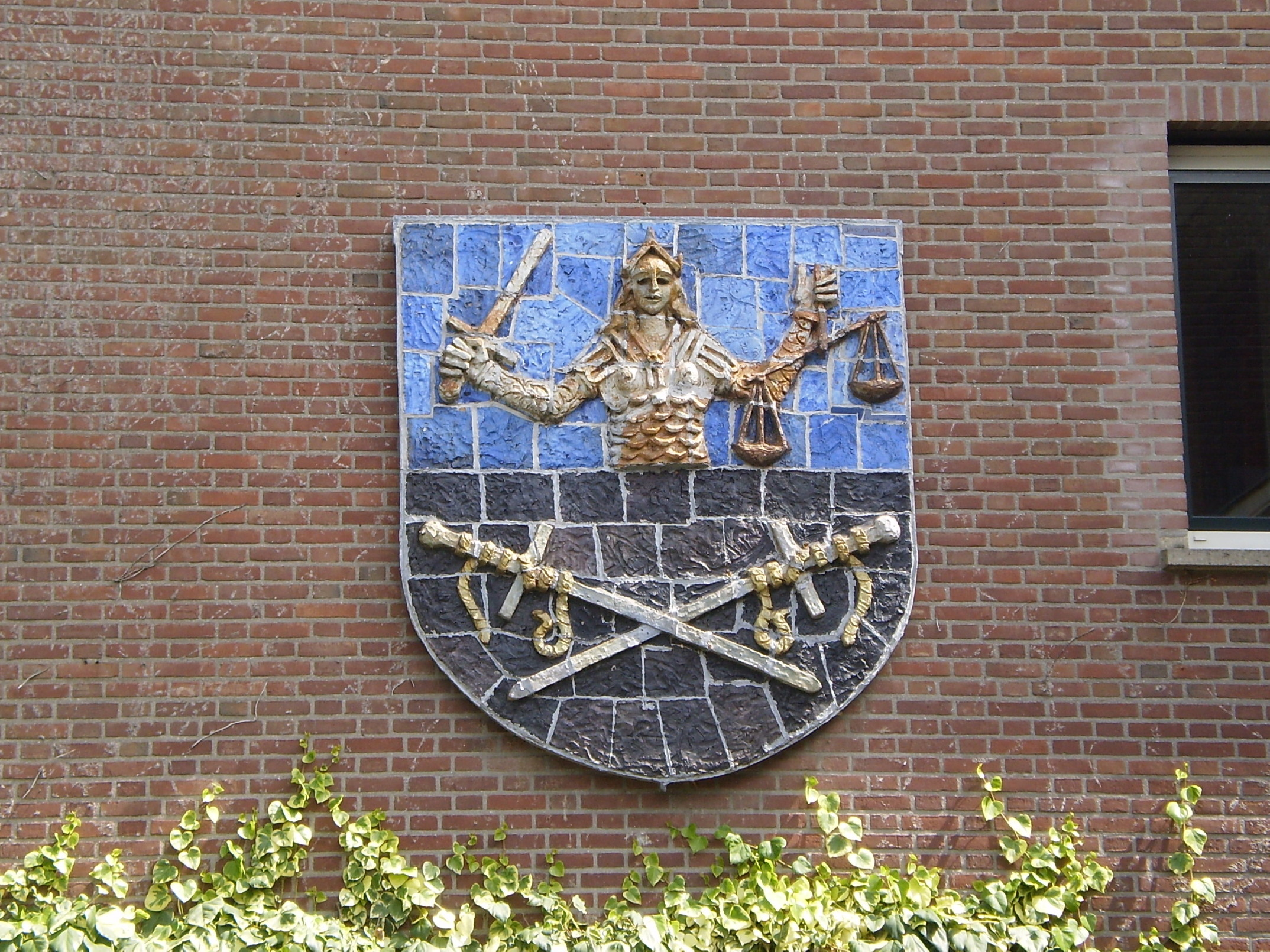 Relief of the coat of arms of the late Dutch municipality of Dinxperlo (integrated into Aalten in 2005) at its former town hall (now co-office of Aalten municipality)